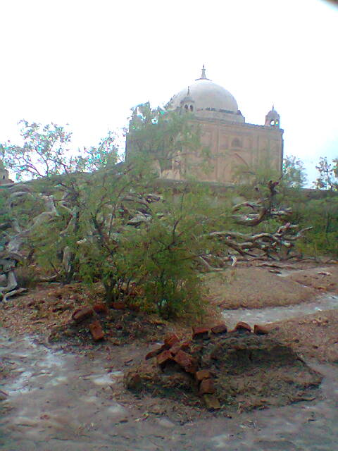 There are so many tombs found near by small village located in the district Shaheed Benazirabad (Nawabshah), some broken and some under the land, some still to be found. This the main Tomb of Hafiz Mian Noor Muhammad, which is in good condition, and surrounded by so many graves of unknown saints. This is a photo of a monument in Pakistan identified as the SD-U-33